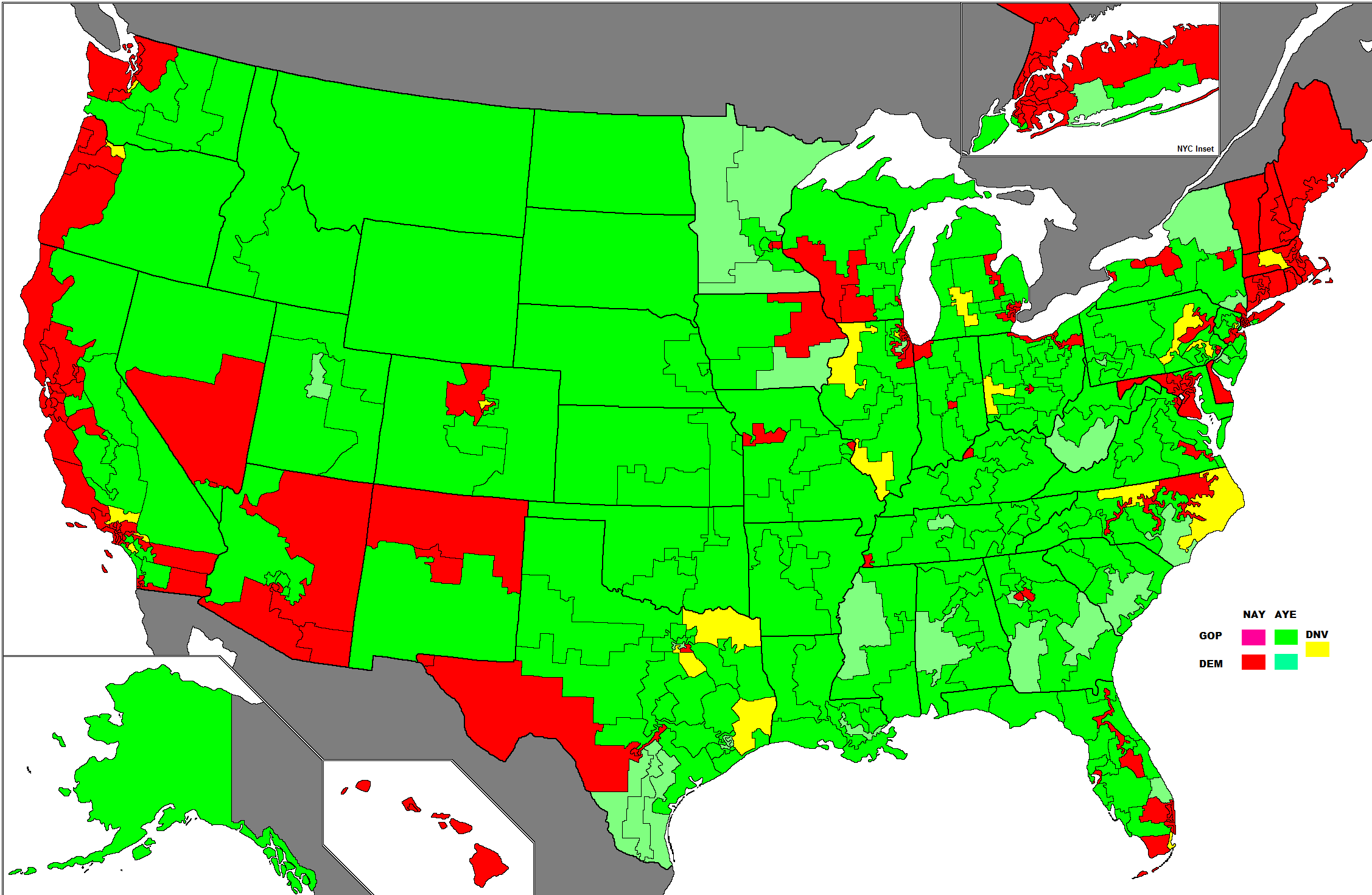 This map shows how members of the United States House of Representatives voted on the Keystone Pipeline Bill on November 14th, 2014.